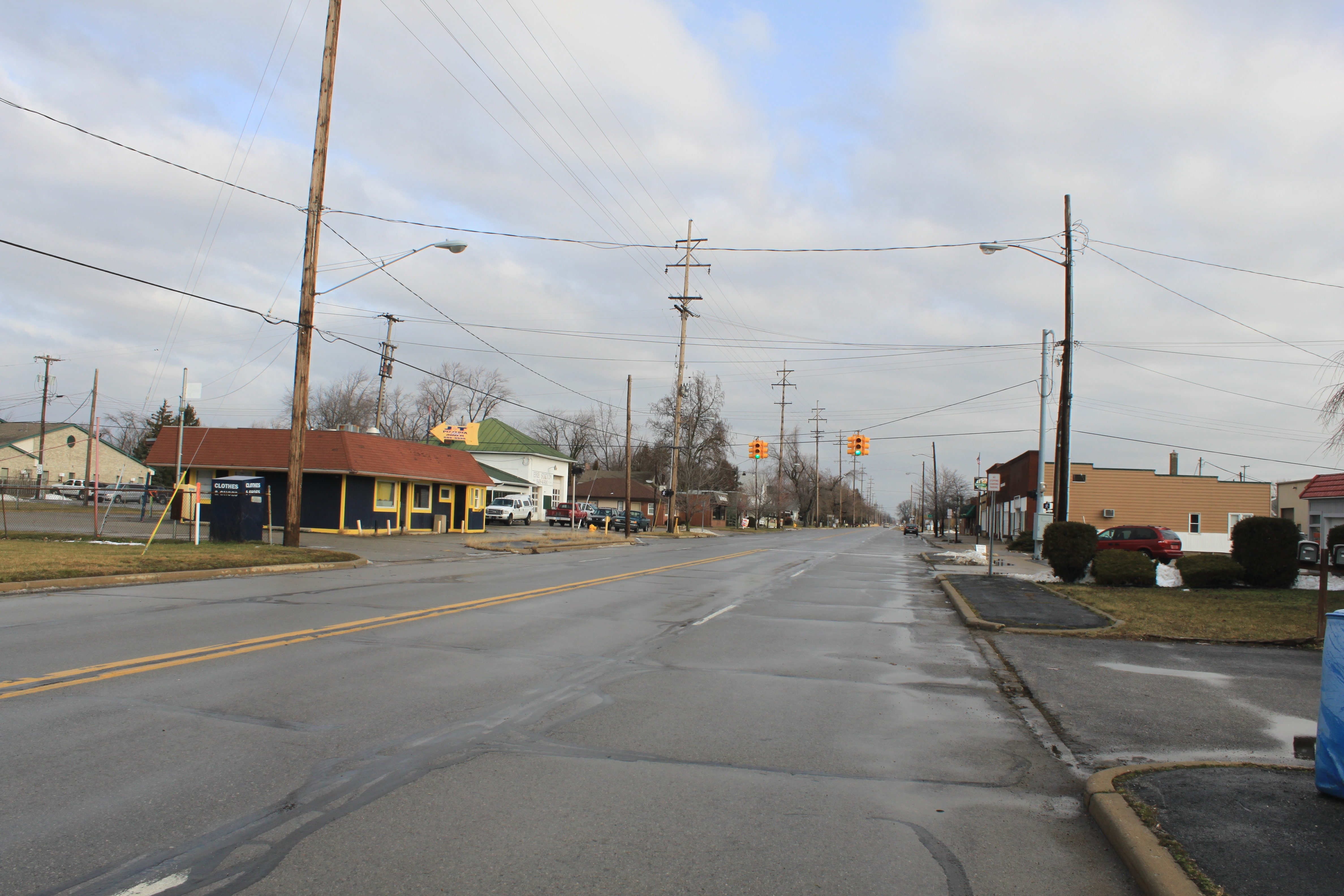 Dixie Highway facing north just south of Manhattan Street, Erie Township, Michigan.